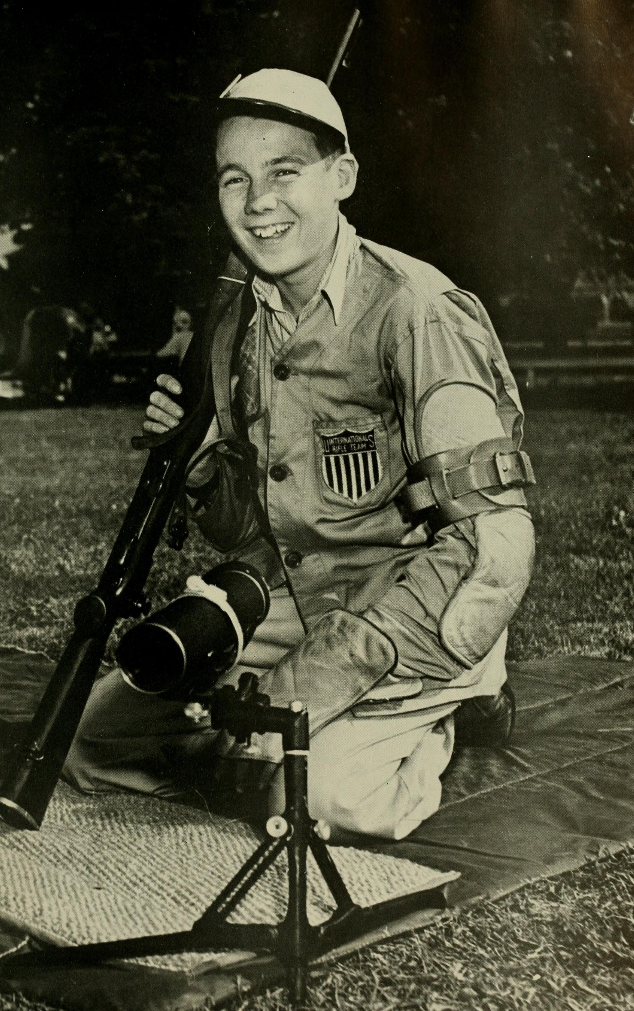 Arthur Cook pictured on an Olympic rifle range near London in 1948.